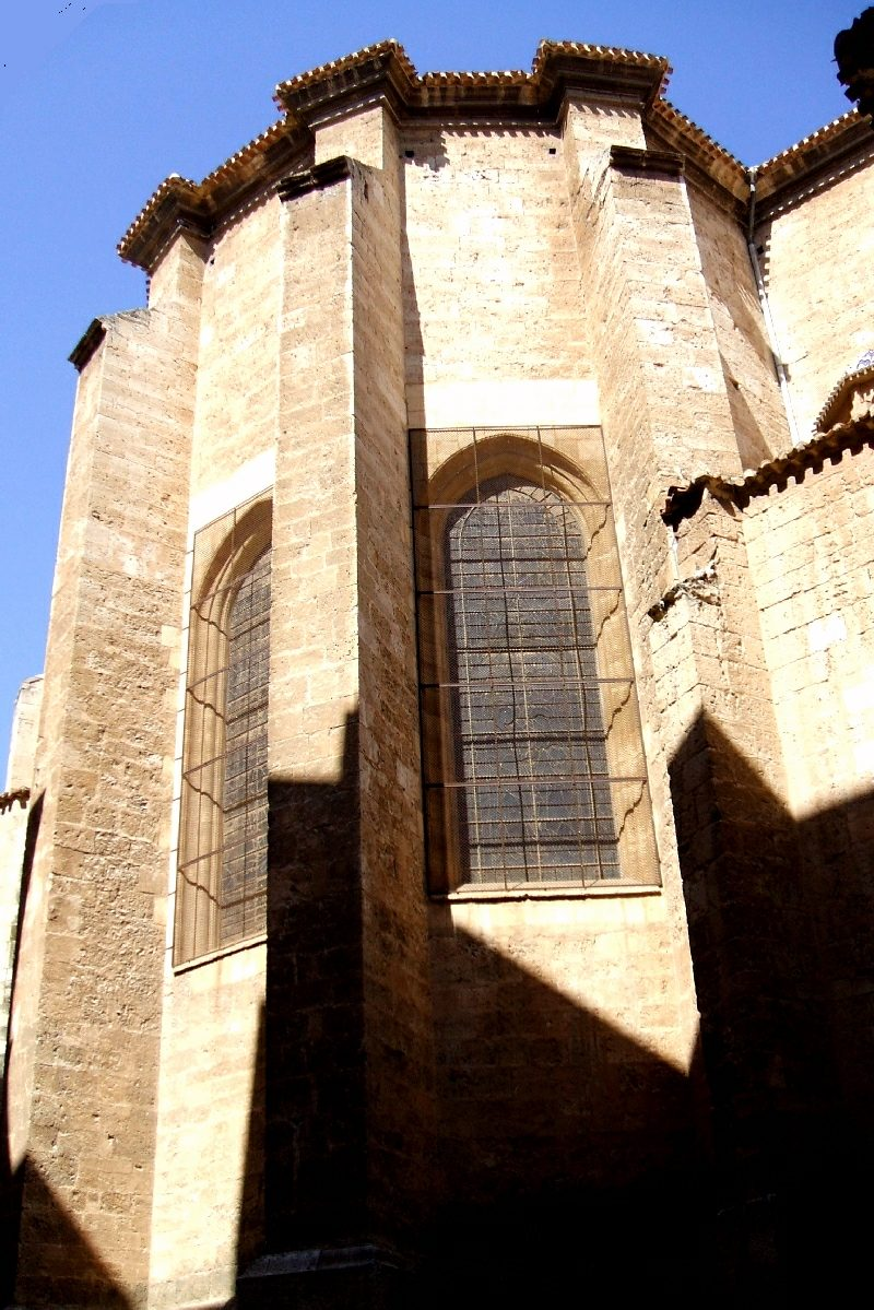 Ábside de la Catedral de Albacete (Castilla-La Mancha, España).